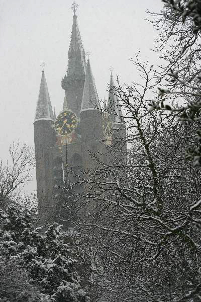 The leaning belltower of the Old Church in Delft, Netherlands, in wintertime